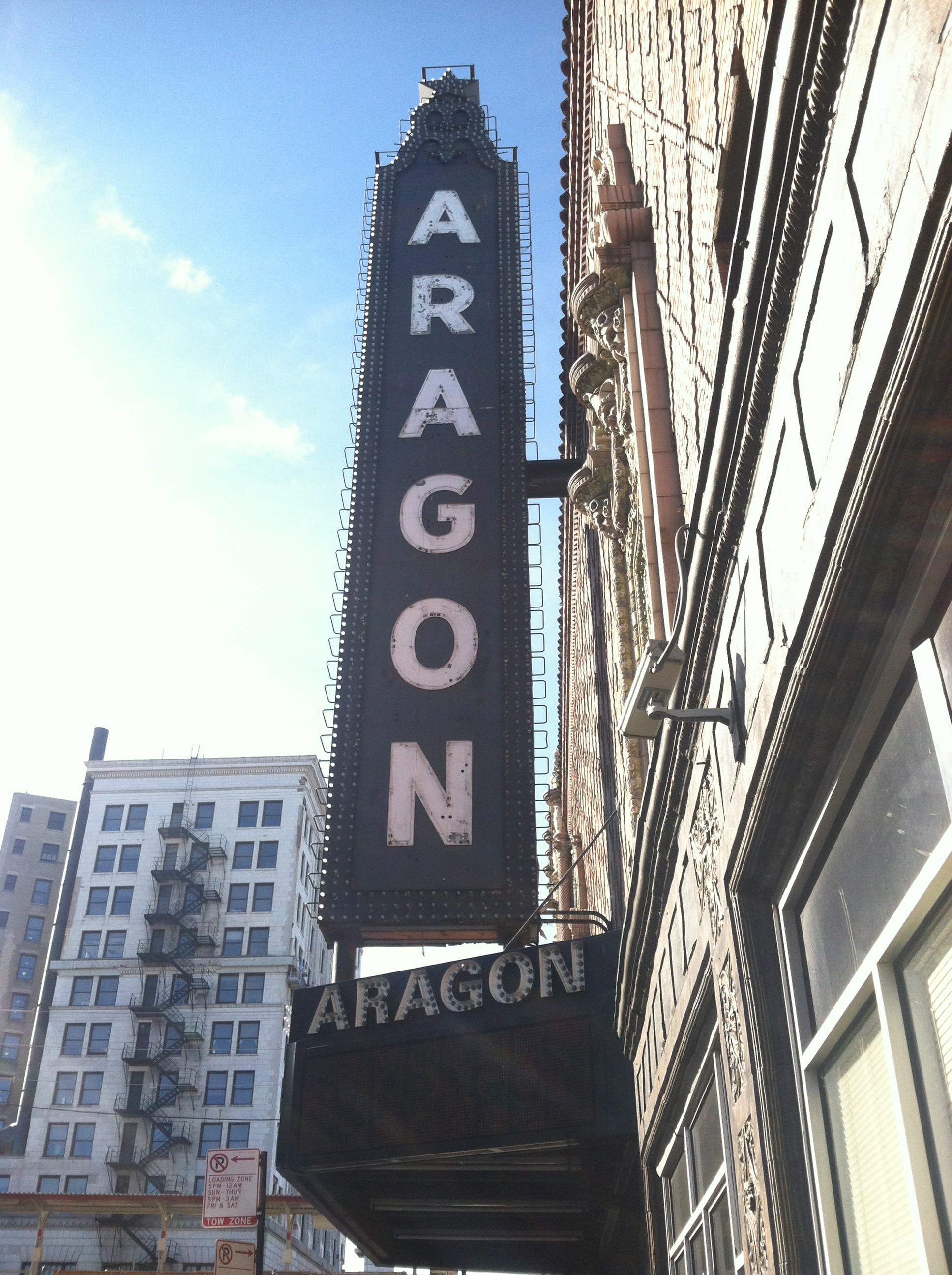 Chicago, IL